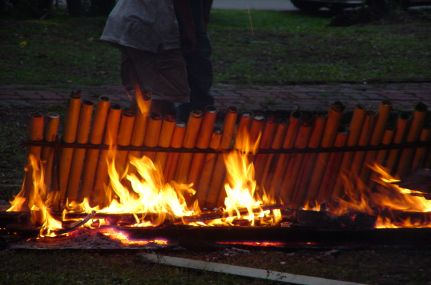 Lemang cooking process at Taman Tun Dr. Ismail, Malaysia.